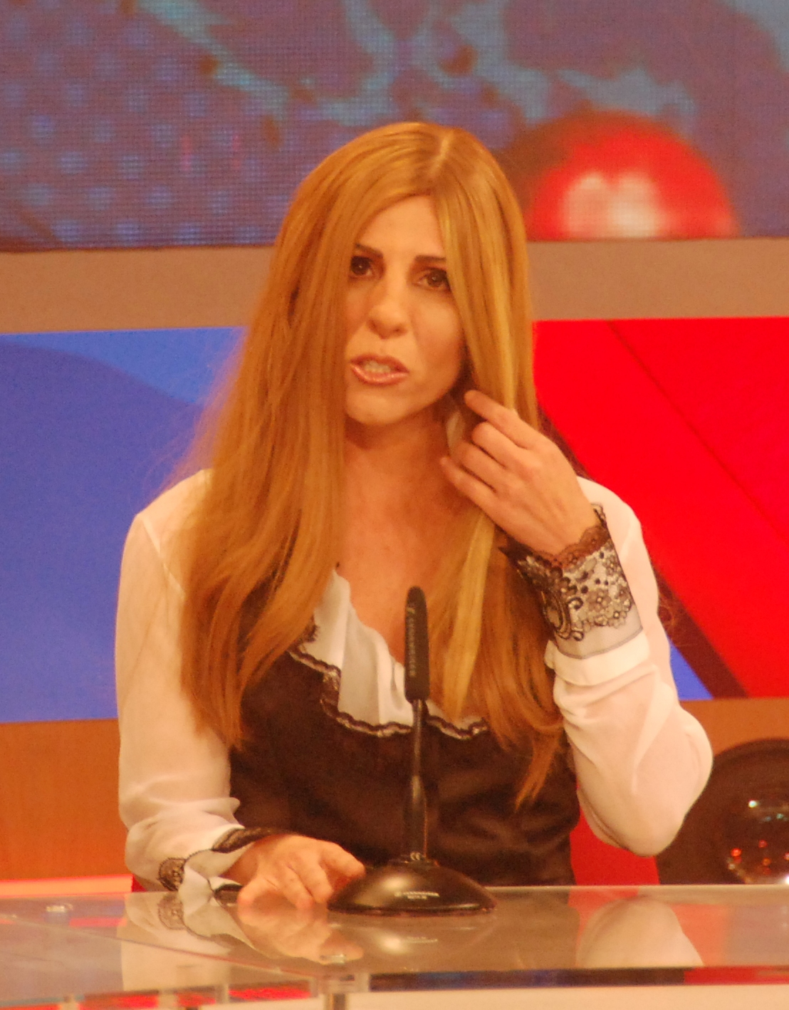 Orna Banai (Hebrew: אורנה בנאי, born November 25, 1969) is an Israeli actress, comedian and entertainer.